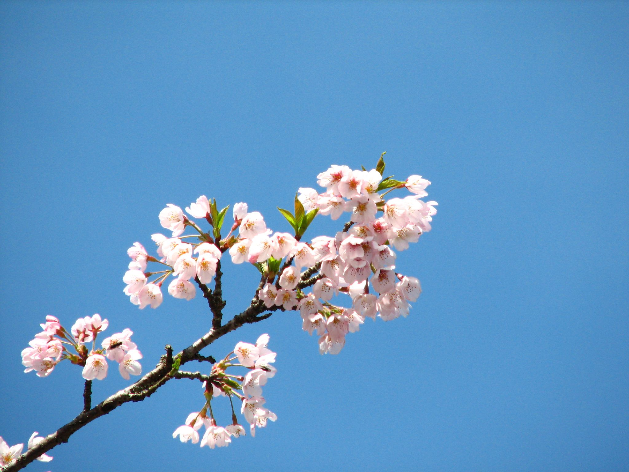 Cherry blossoms (flowers of Prunus serrulata) on Mount Ali, Chiayi County, Taiwan.